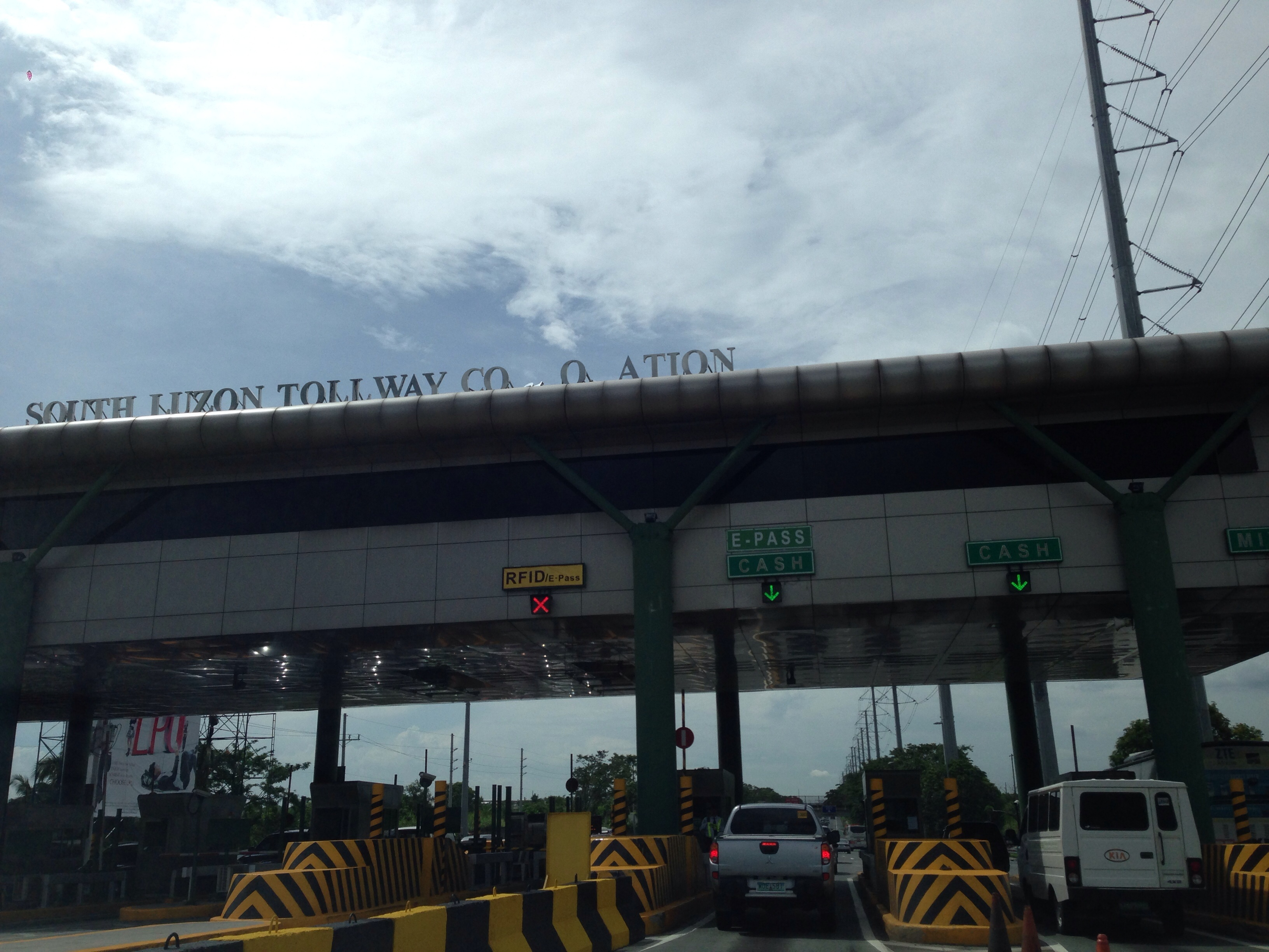 South Luzon Expressway Toll Plaza in Calamba